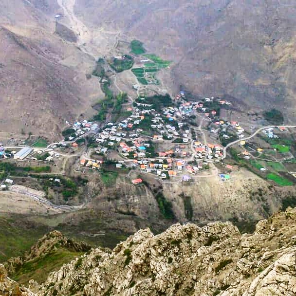 This Is Beautiful Picture Of Keleri Kefa